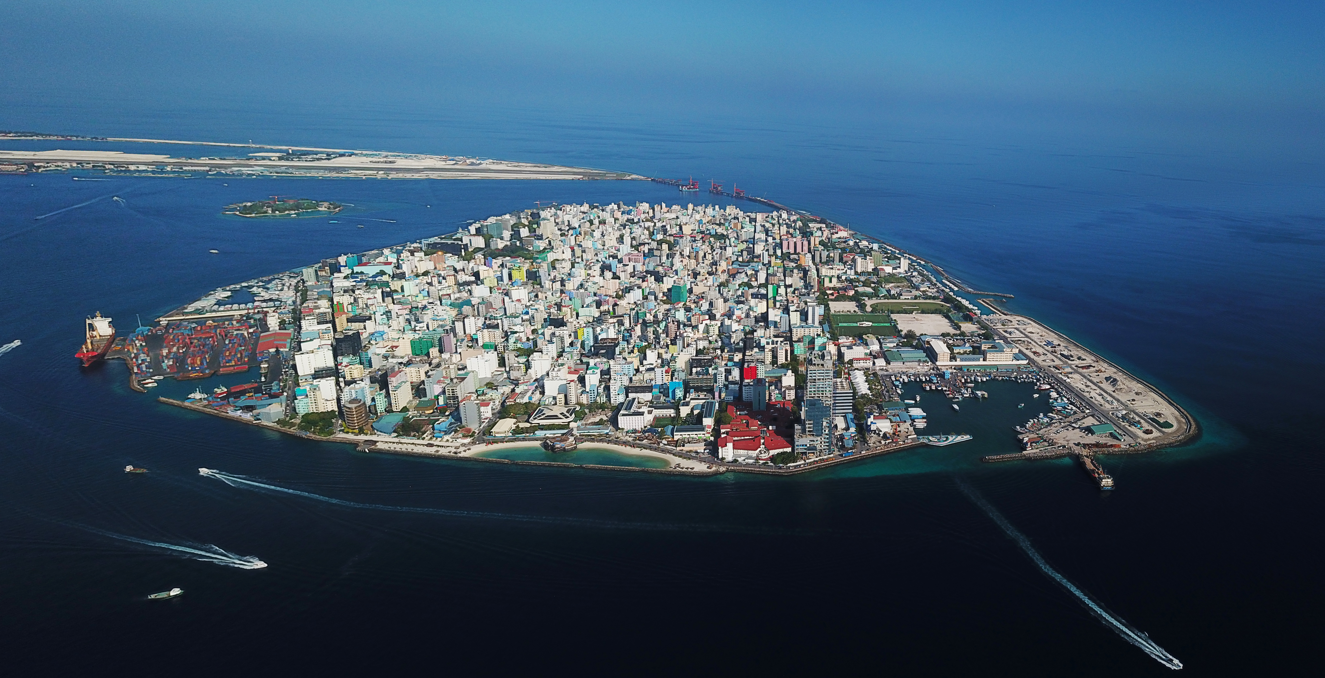 Aerial view of the Malé viewed from the west